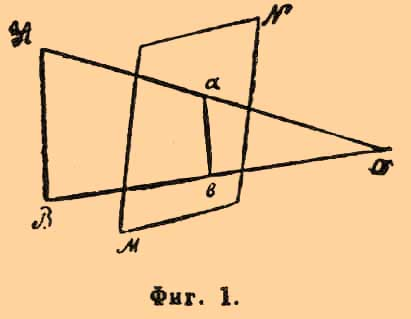 Illustration from Brockhaus and Efron Encyclopedic Dictionary (1890—1907)